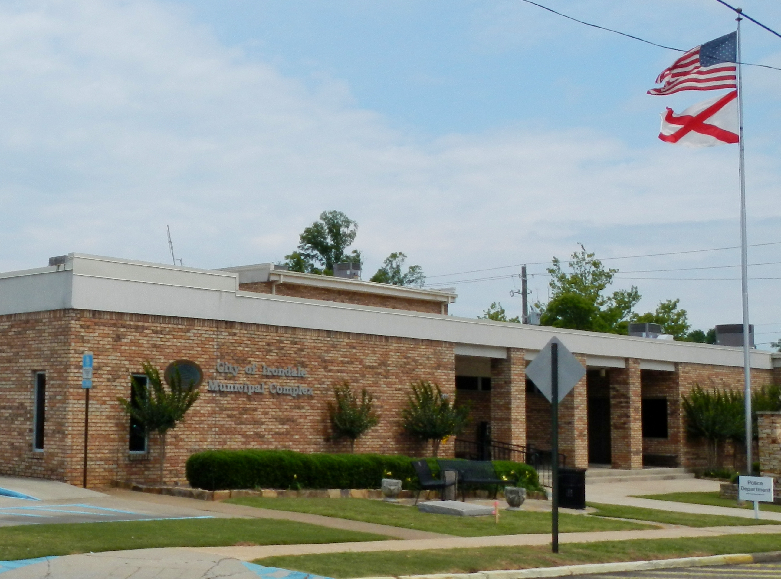 This is a photo of the Irondale Municipal Complex in Irondale, Alabama.